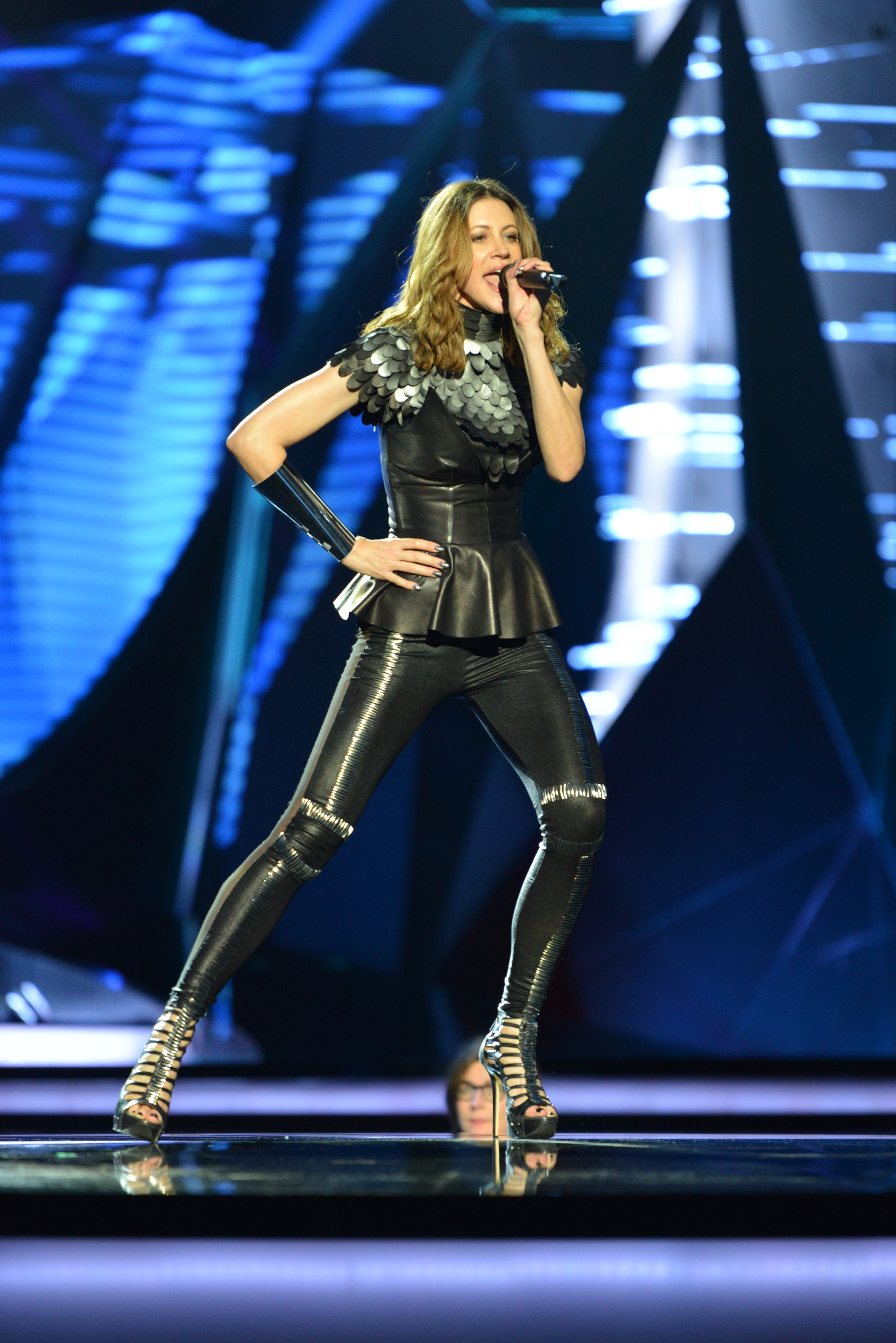 Hannah representing Slovenia with the song "Straight into Love" during the first dress rehearsal of the first semi final of the Eurovision Song Contest 2013 in Malmö. (Help translate this text)